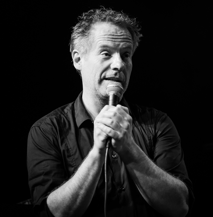 Erlend Skomsvoll and Ensemble Denada at the stage of Energimølla. The concert was part of Kongsberg Jazzfestival and took place on 07. July 2017. Lineup: Torun Eriksen (vocal) Frank Brodahl (trumpet) Marius Haltli (trumpet) Anders Eriksson (trumpet) Even Kruse Skatrud (trombone) Nils Andreas Granseth (trombone) Frode Nymo (saxophone) Børge-Are Halvorsen (alto saxophone) Atle Nymo (tenor saxophone) Tina Lægreid Olsen (baritone saxophone) Olga Konkova (piano) Jens Thoresen (guitar) Per Mathisen (bass guitar) Håkon Mjåset Johansen (drums)